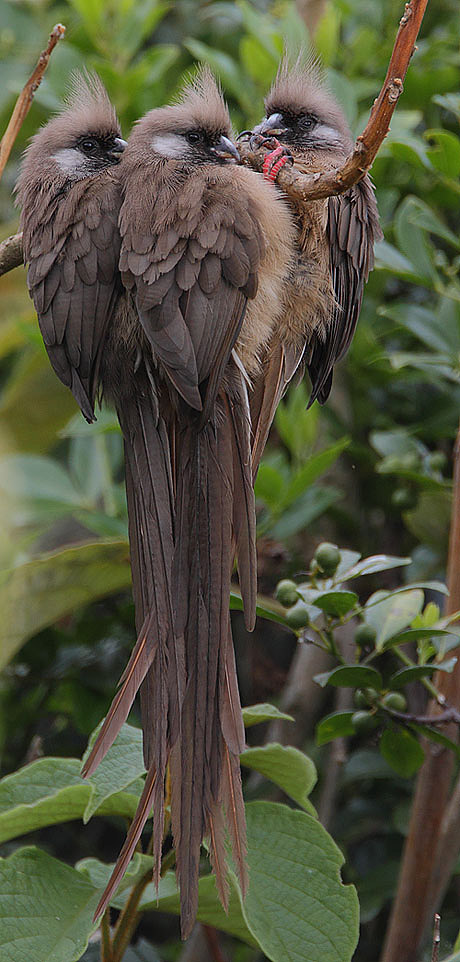 Three Speckled Mousebirds in near, Mountain Lodge, Mount Kenya, Kenya.